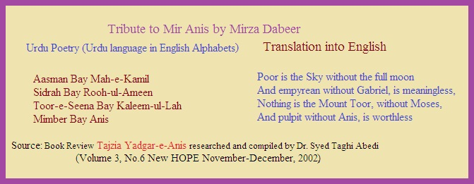 Text comprised of poetry of Mirza Dabeer (great poet of Urdu Language) in Roman Urdu with its English Translation